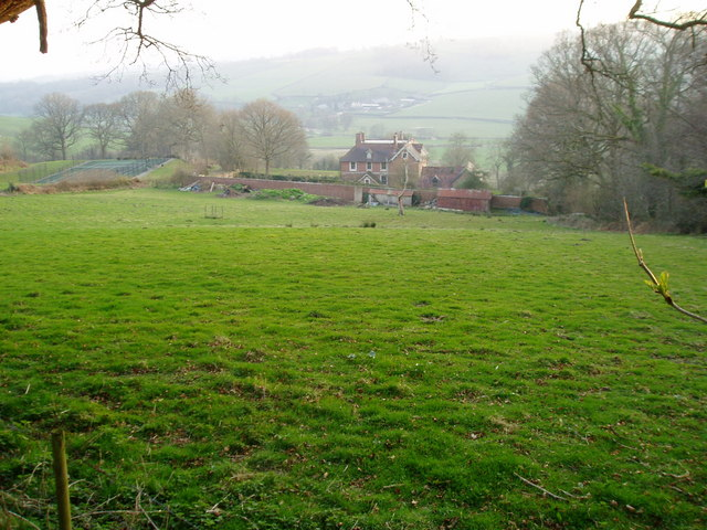 Yarty House Looking down into the Yarty valley from the edge of Yarty Copse.